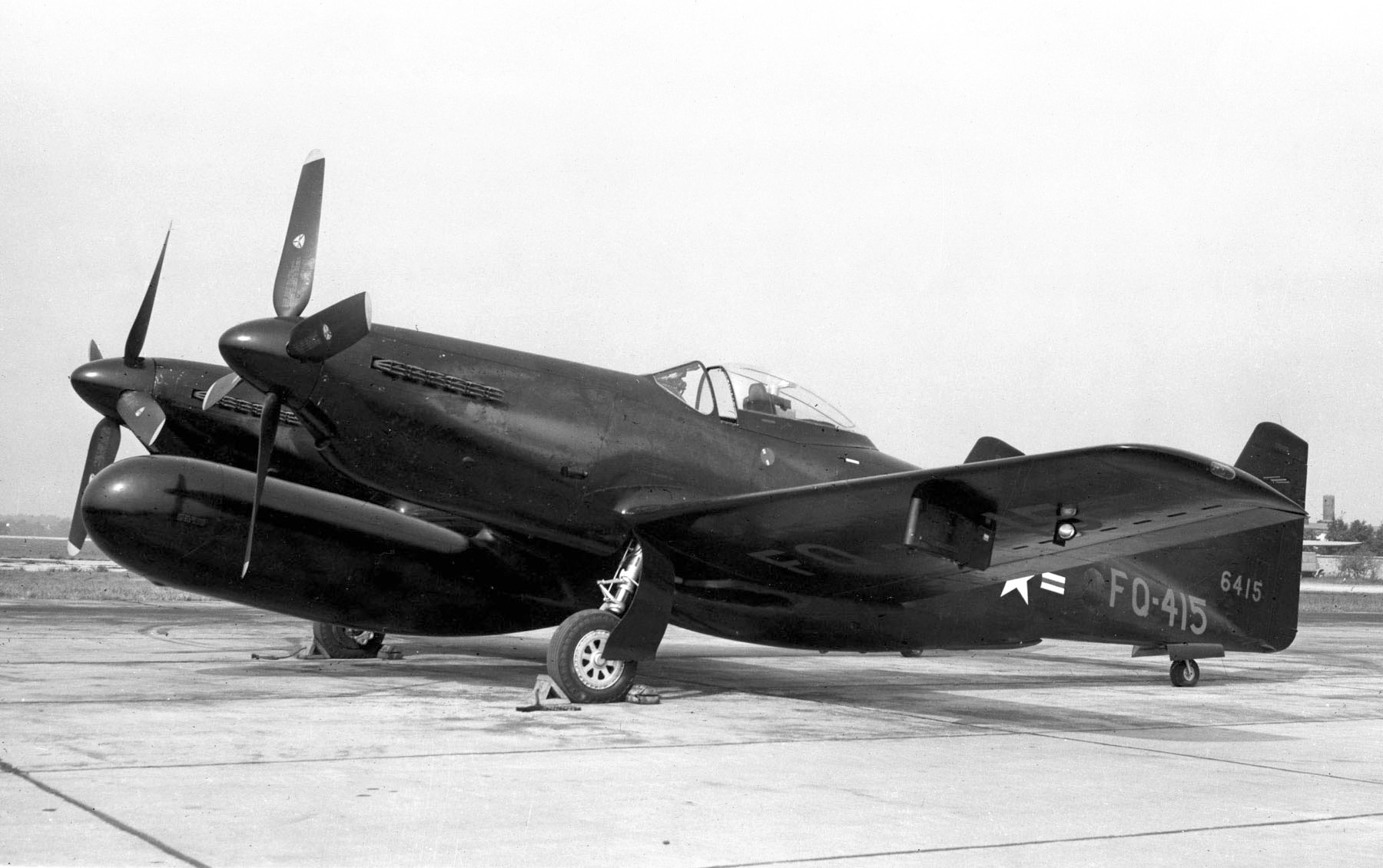 North American F-82F (S/N 46-415).